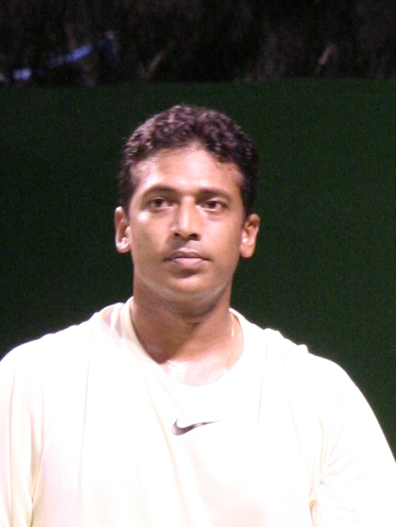 Mahesh Bhupathi at the 2007 Australian Open, during his first-round men's doubles match, partnering Radek Štěpánek.